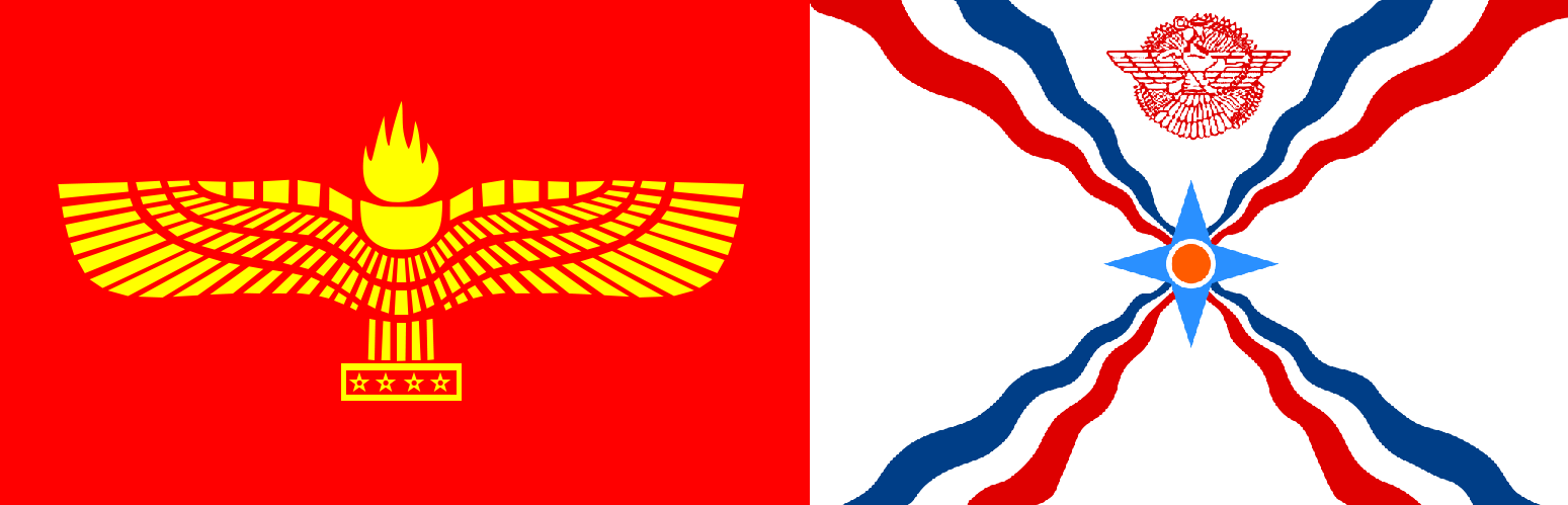 Flag of the Suryoye (Arameans and Assyrians)